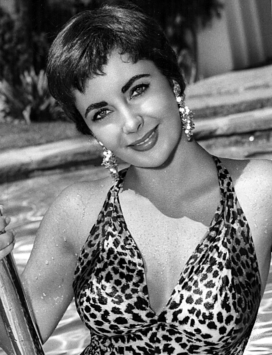 Original studio photo of Elizabeth Taylor in film The Last Time I Saw Paris